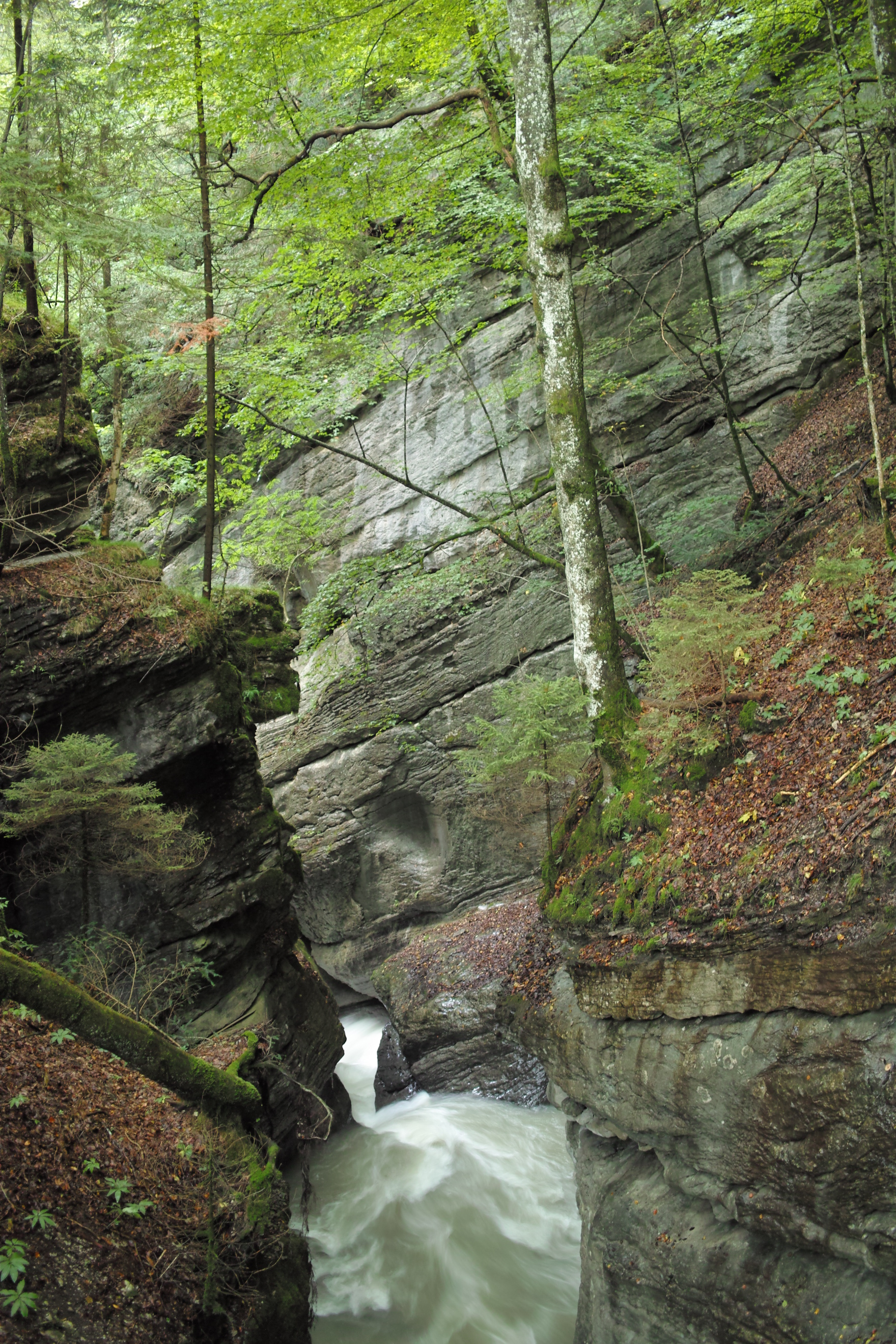 Grande Eau, view from the Pont de la Tine, Ormont-Dessus, Vaud